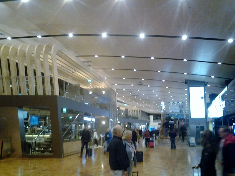 New restaurant Pier Zero in the old section of Helsinki Airport Terminal 2.